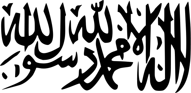 Modified version of this image, originally uploaded by Lexicon "Flag of the Islamic Khilafah". New version, based on image at Flags of the world (FOTW): [1].